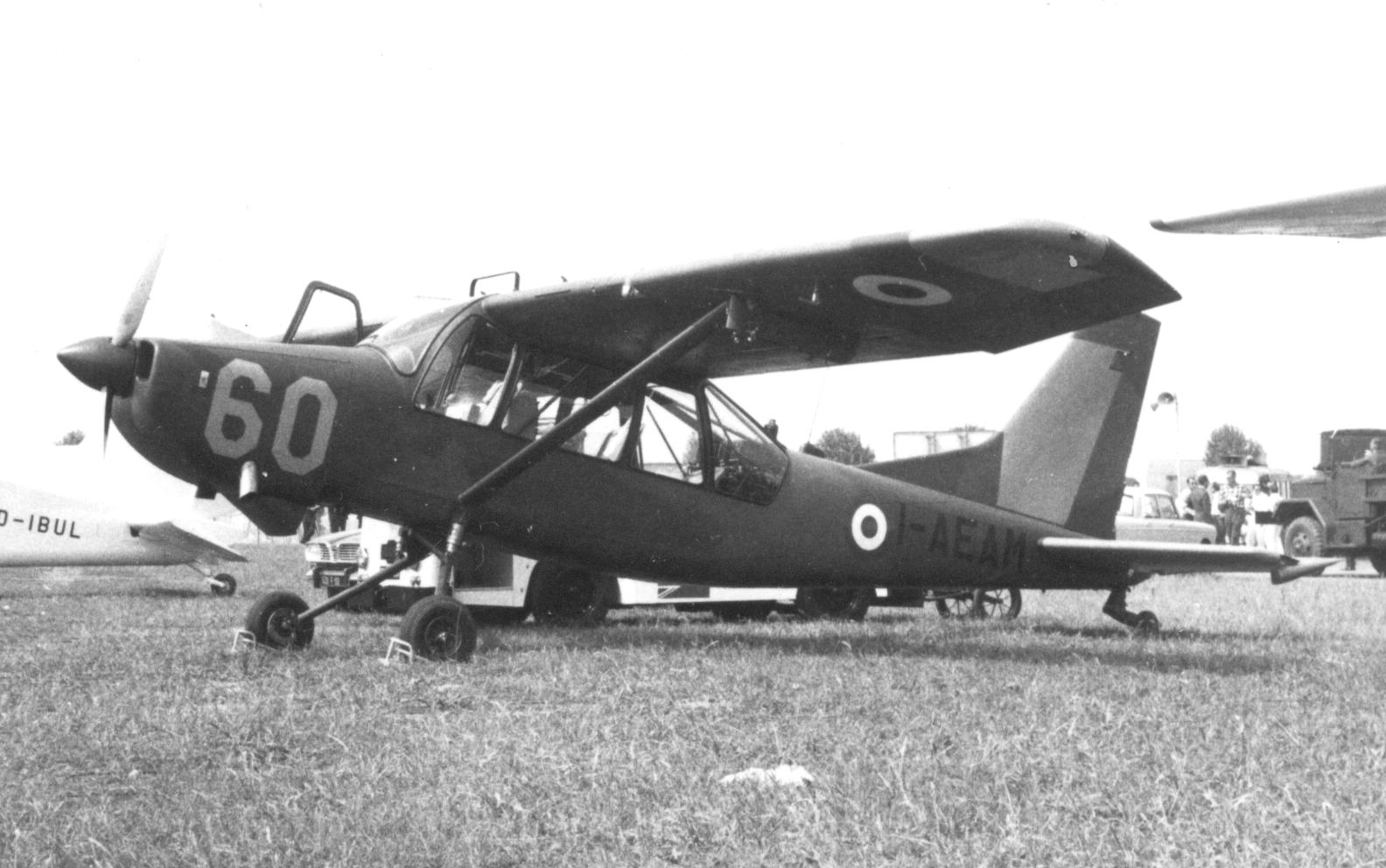 Aermacchi AM3 prototype I-AEAM at the Paris Air Show